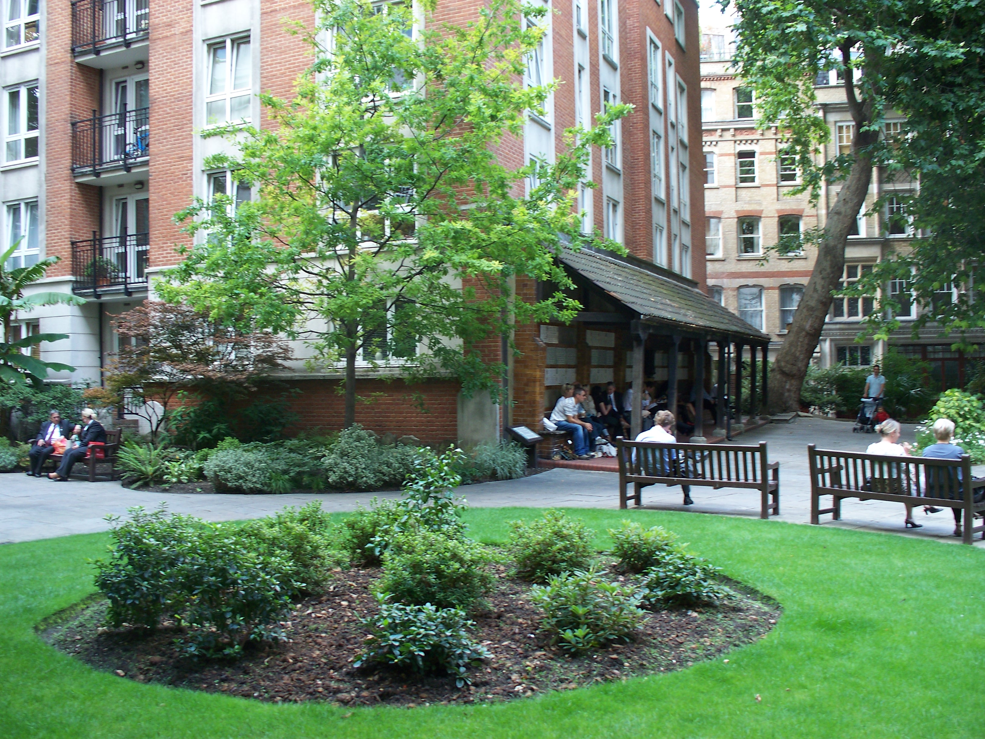 Postman's Park, London. Photograph taken in a public location in the UK of a structure on permanent public display, and exempt from copyright under Section 62 of the Copyright Designs & Patents Act 1988 ("it is not an infringement of copyright to film, photograph, broadcast or make a graphic image of a building, sculpture, models for buildings or work of artistic craftsmanship if that work is permanently situated in a public place or in premises open to the public")